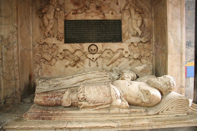 Sir Edward Carre Monument to Sir Edward Carre who died 1st October 1618, by Maximilian Colt. Badly mutilated by Puritan iconoclasts during the Commonwealth